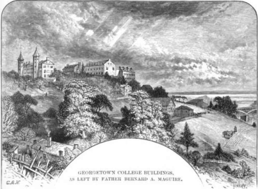 Georgetown University campus in 1858, at the end of Bernard A. Maguire's first term as president. Caption: "Georgetown College Buildings, As Left by Father Bernard A. Maguire."